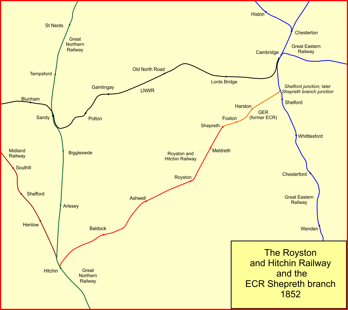 System map of the Royston and Hitchin Railway and the associated Shepreth branch of the Eastern Counties Railway, in Cambridgeshire and Hertfordshire, England, in 1862